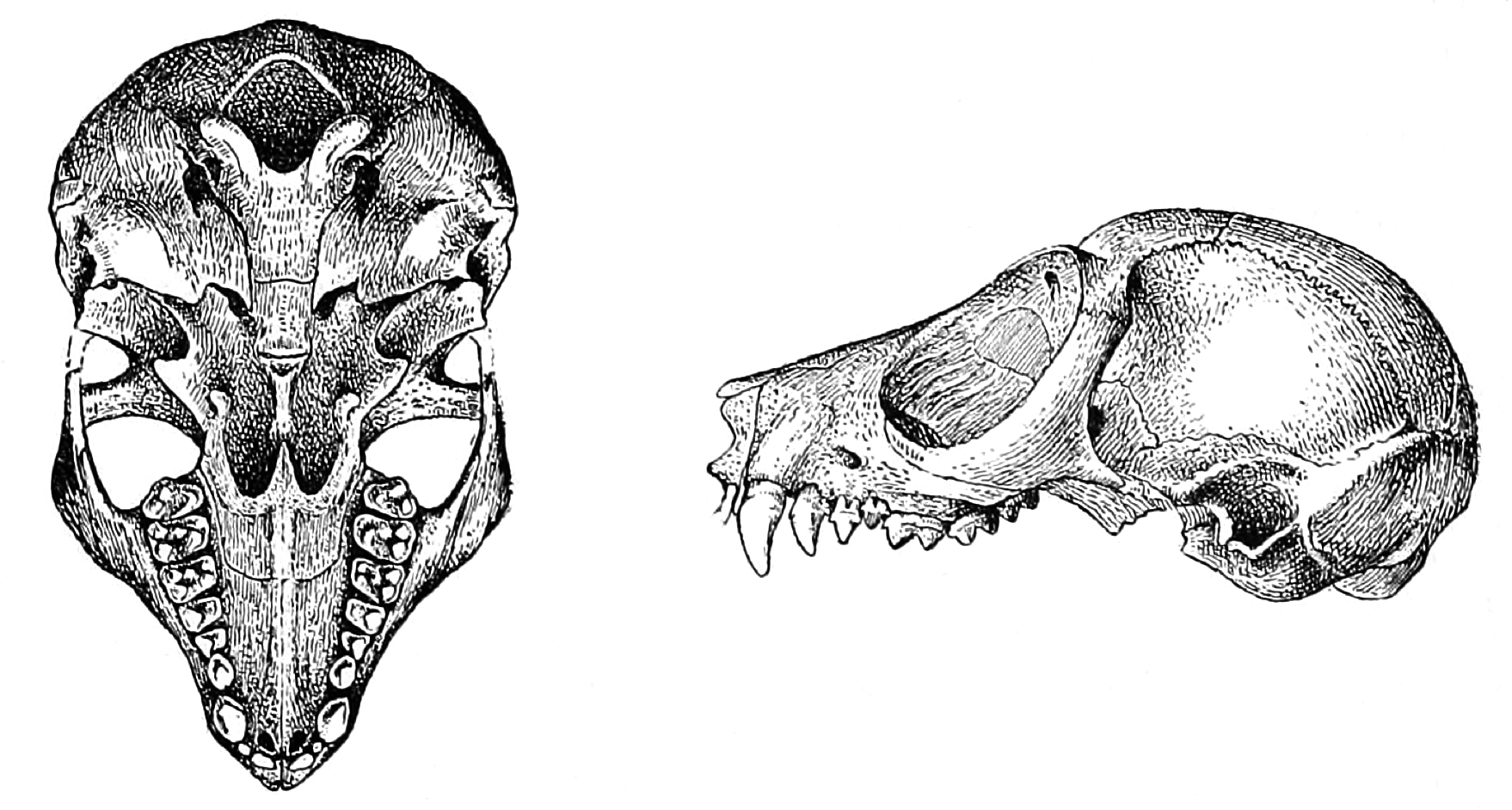 Pygmy Slow Loris, skull without maxilla from palatal (left) and left lateral (right)